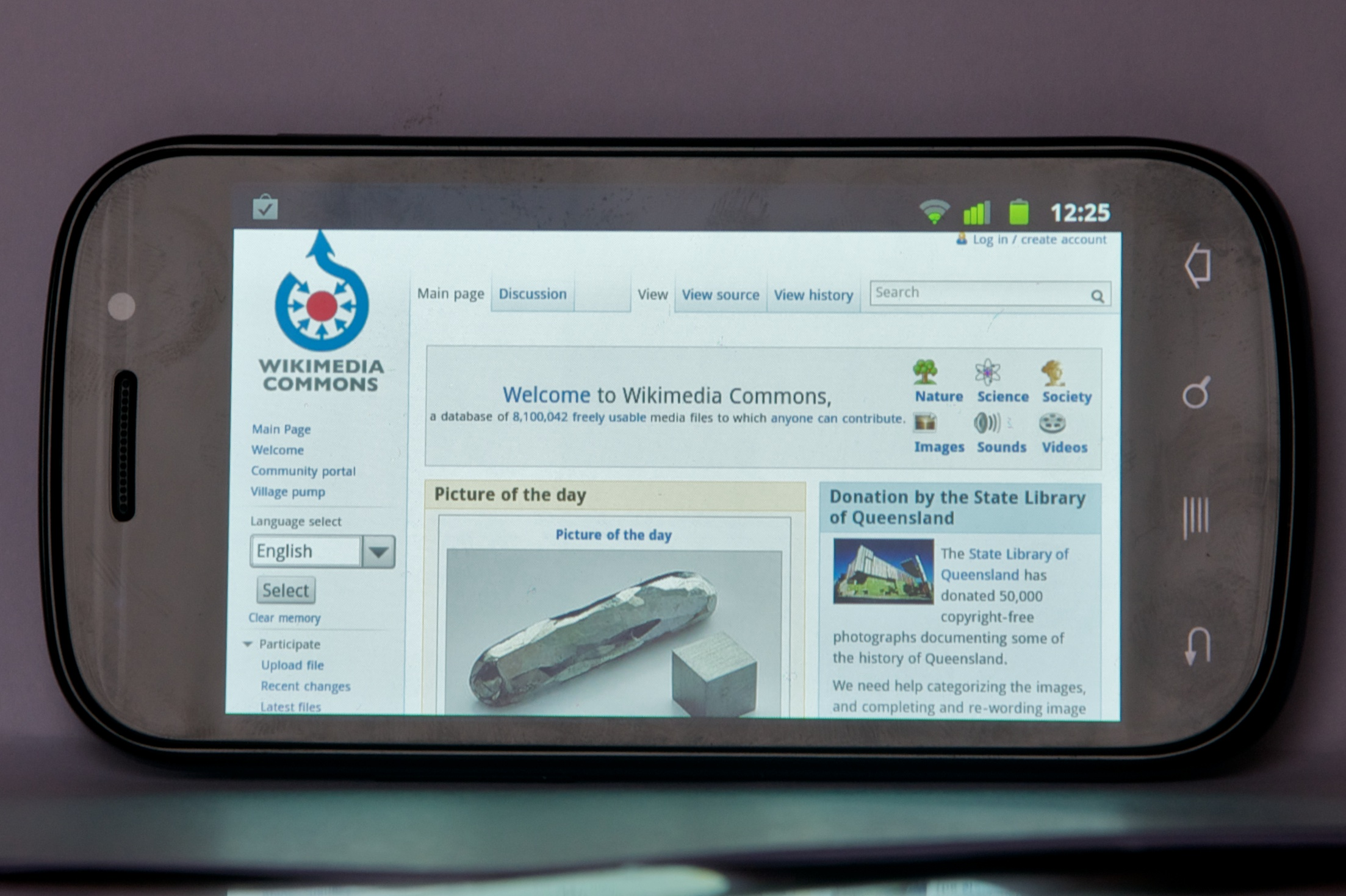 Wikimedia Commons main page on Google Nexus S standard browser